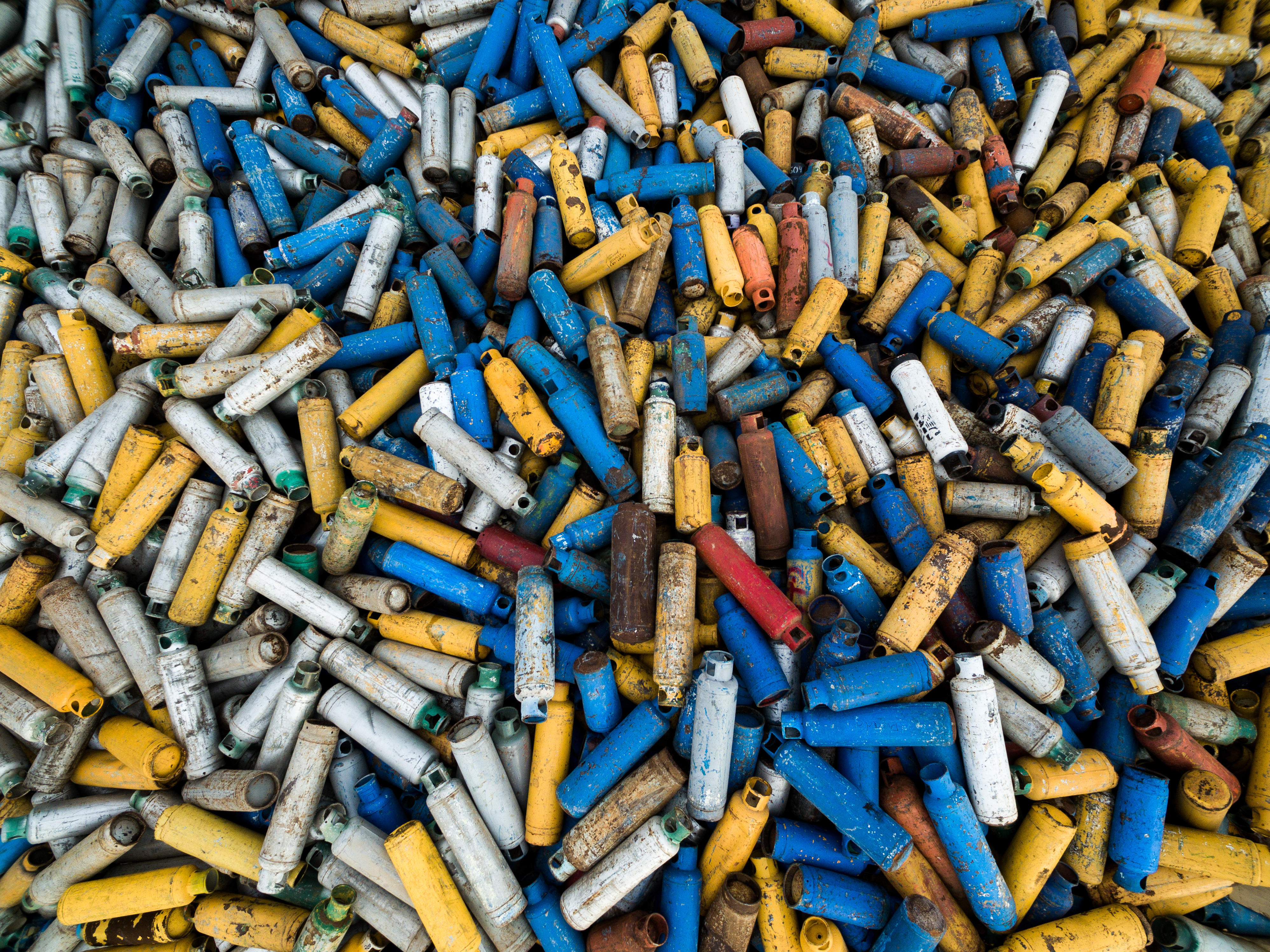 Propane tanks at recycling center in Silao, Guanajuato, Mexico. The tanks are about 4 feet (1.2 meters) tall. The photograph was taken from an aerial view using a drone.